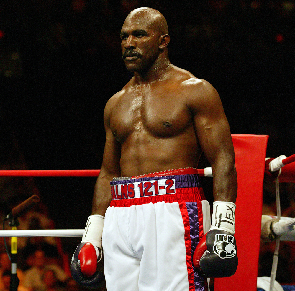 Evander Holyfield vs. Lou Savarese, El Paso, Texas, June 30, 2007, photograph by John Kloepper